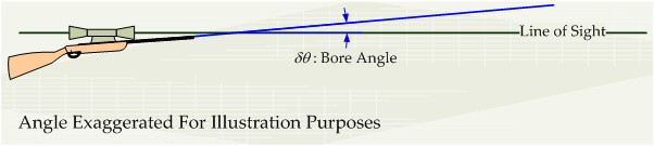 Illustration showing a firearm with a scope and the their respectie line of bore and line of sight.